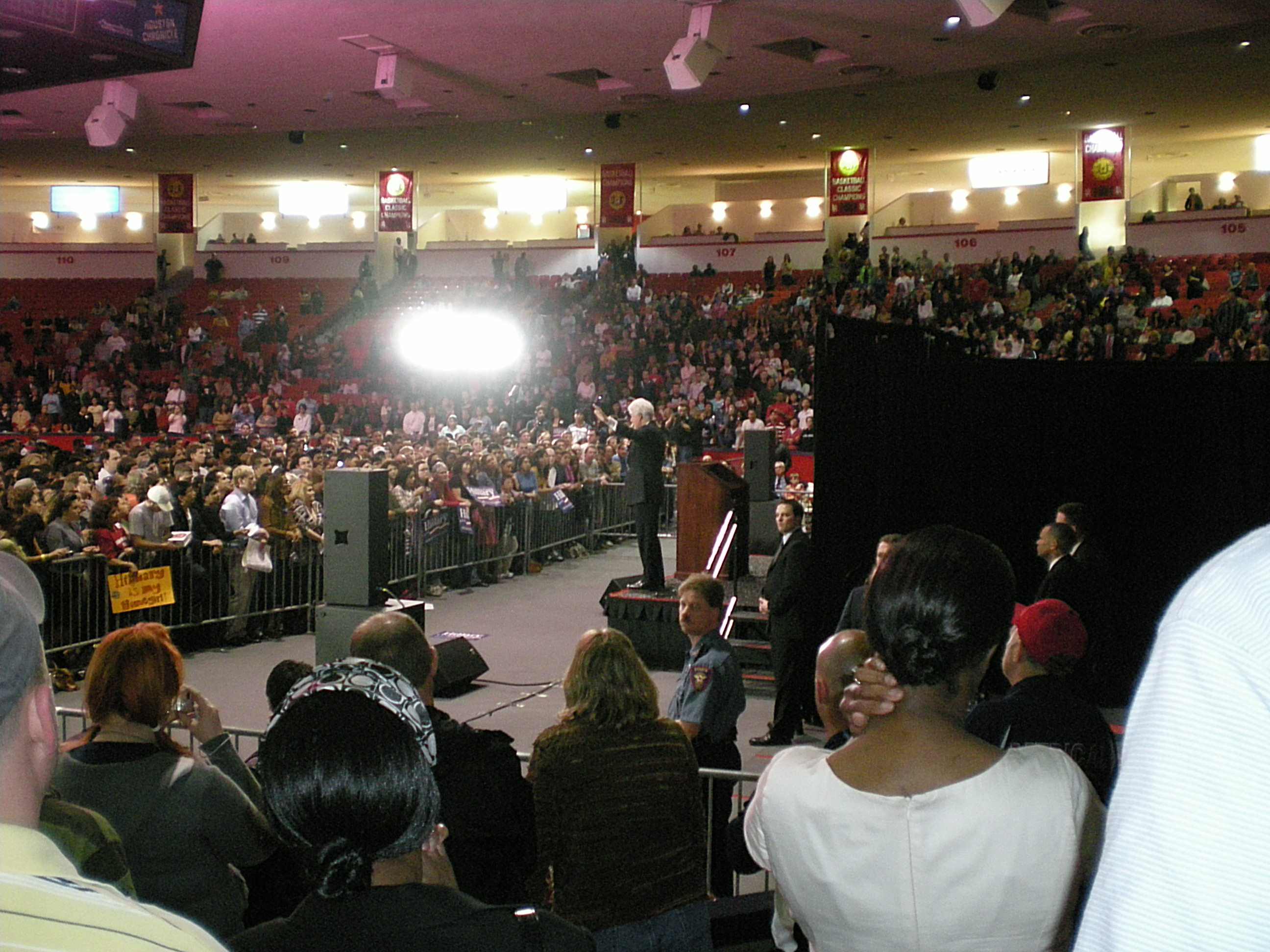 U.S. President William Jefferson Clinton speaking at the University of Houston during a Hillary Clinton campaign rally.